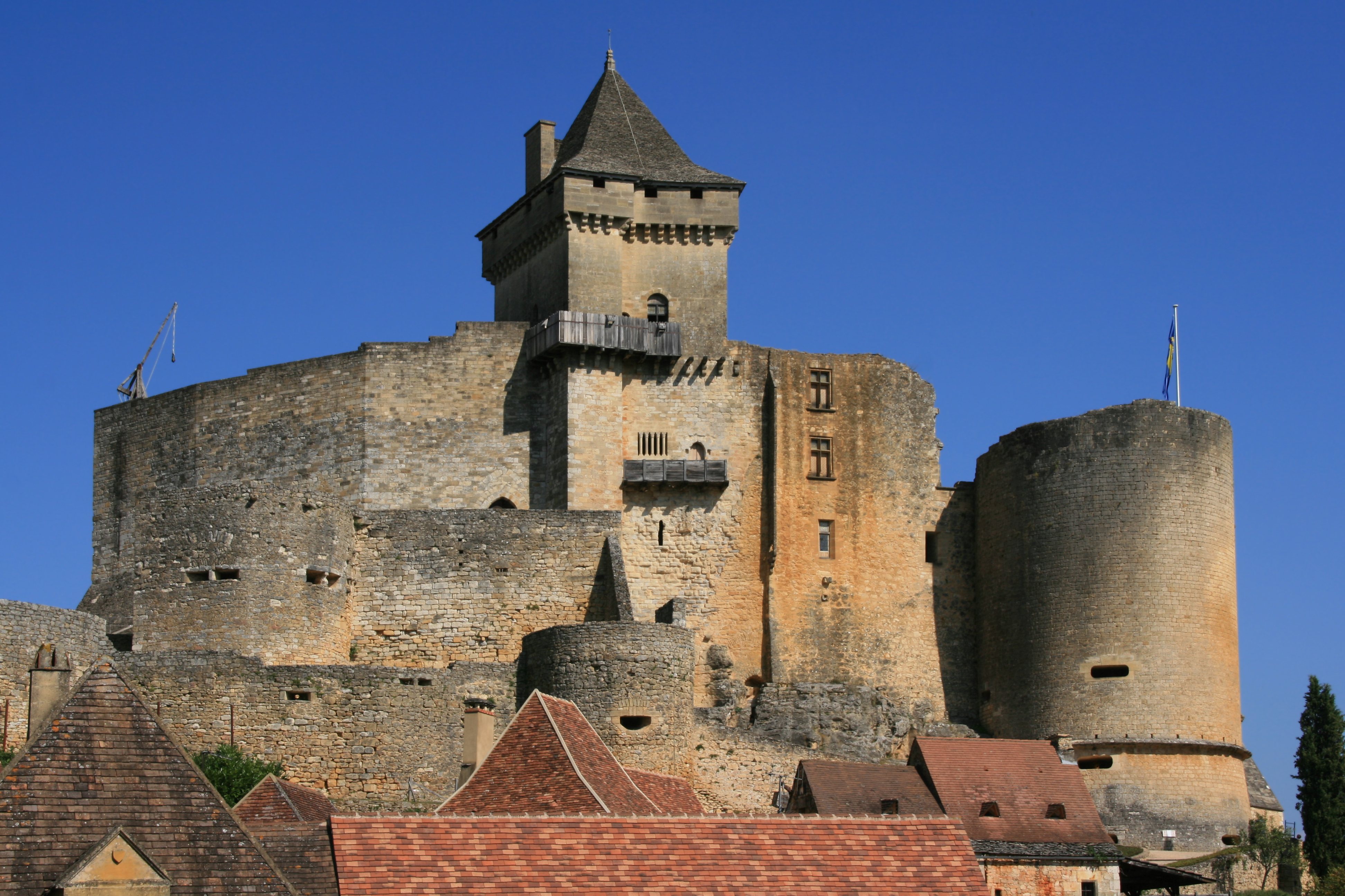 Château de Castelnaud, Castelnaud-la-Chapelle, Dordogne, Aquitaine, France.